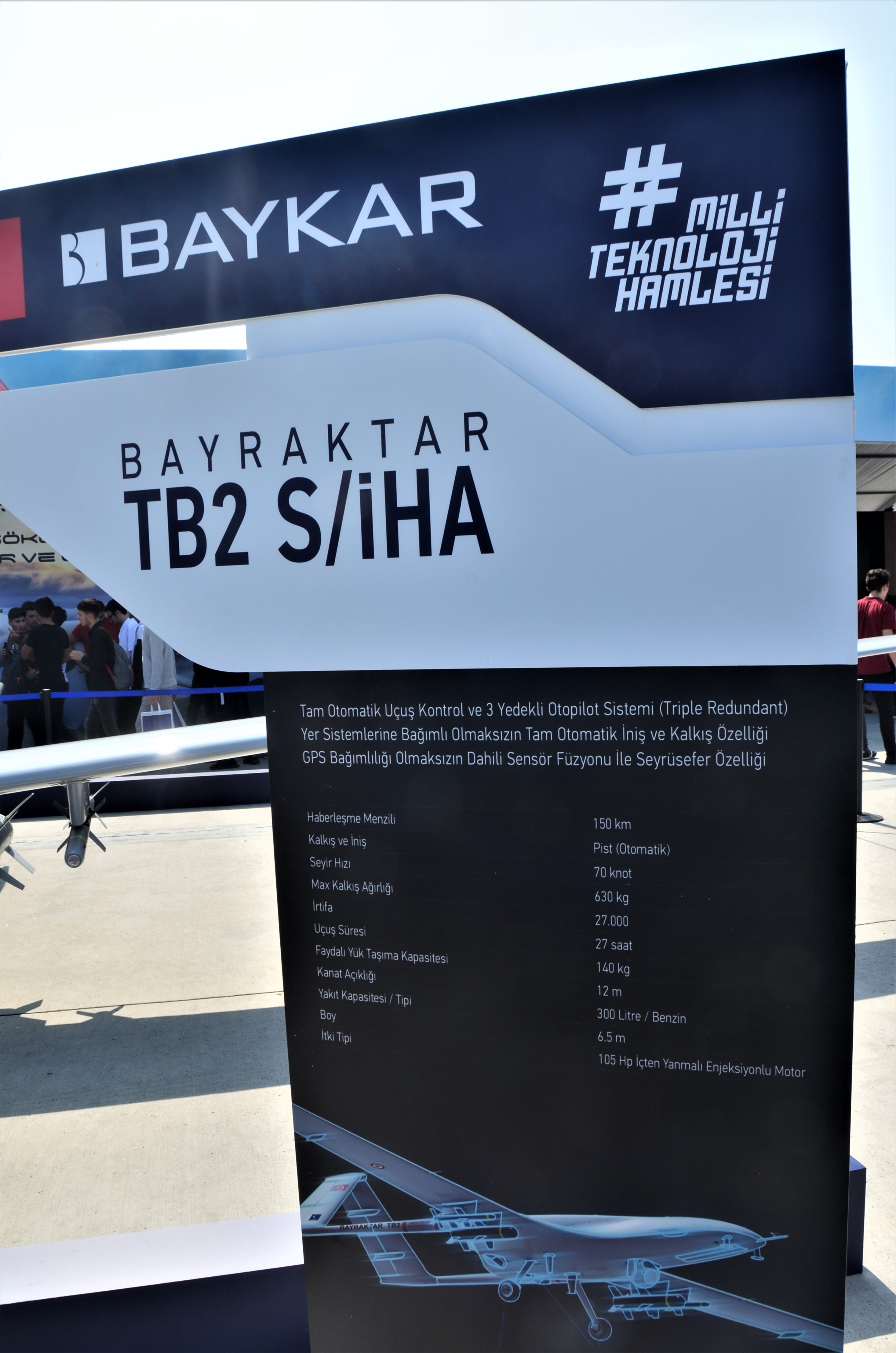 Unmanned aerial vehicle TB2 of Bayraktar at Teknofest 2019